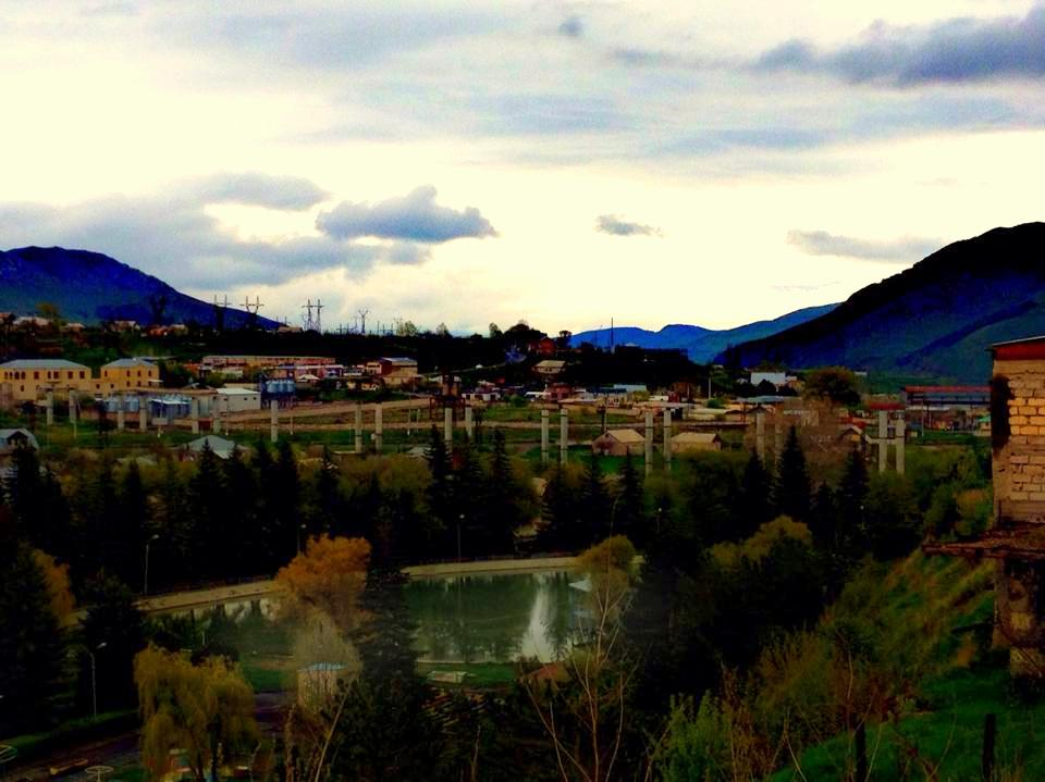 Spitak, Armenia.